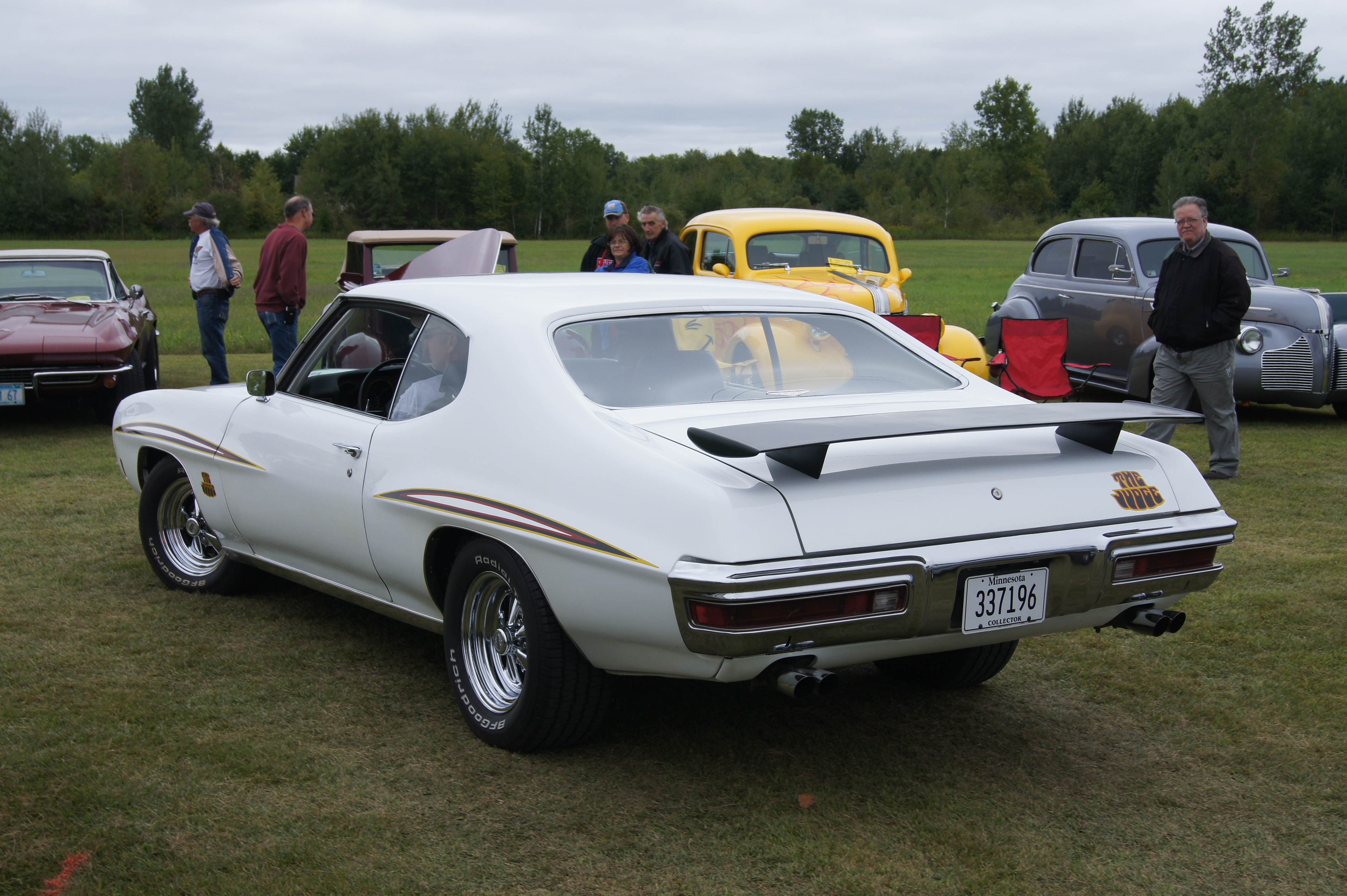 North Star Chapter Studebaker Drivers Club 13th Annual Labor Day Car Show September 2, 2013 Blacksmith Lounge Hugo, MN More Car Pictures